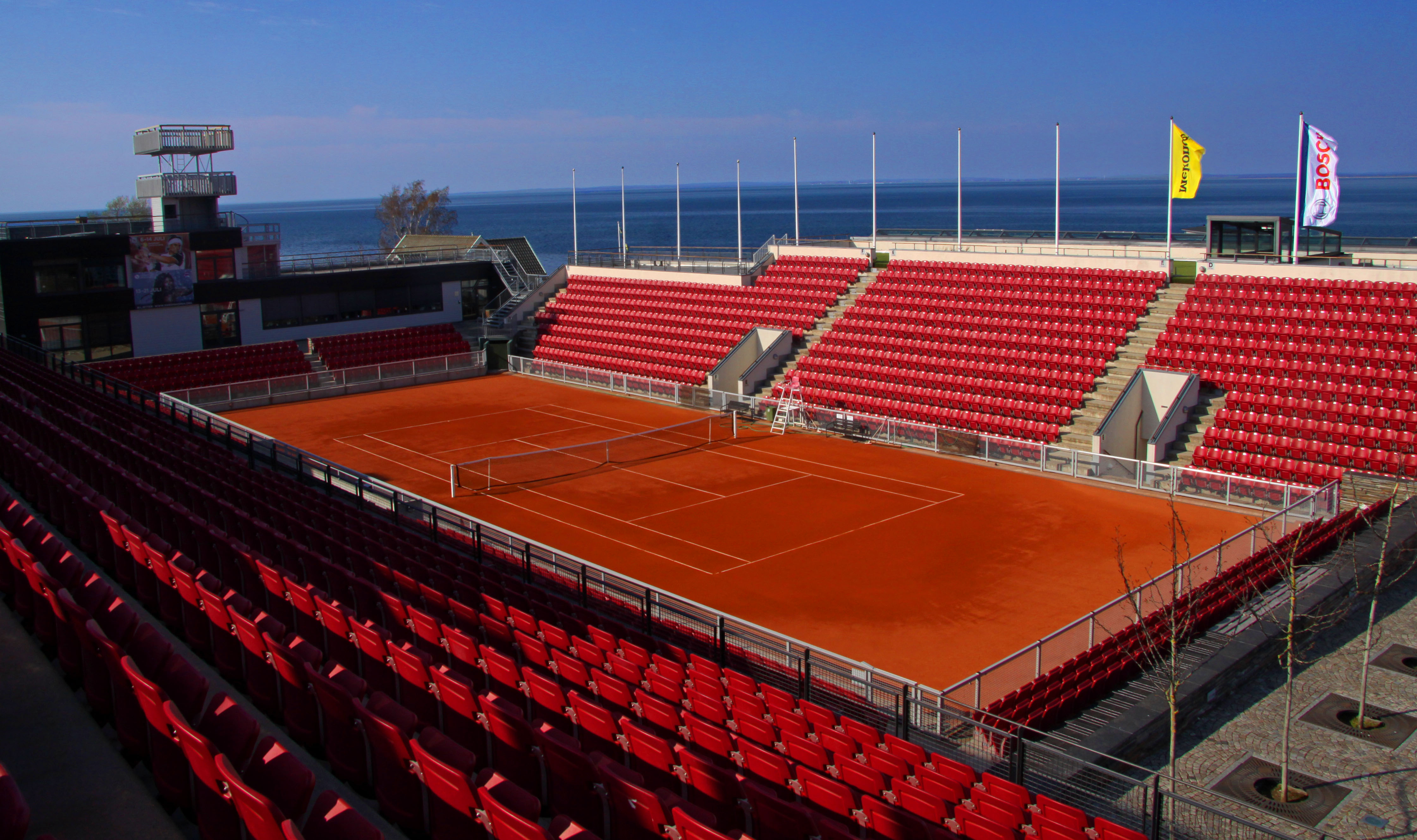 Båstad Tennis Stadium 2013